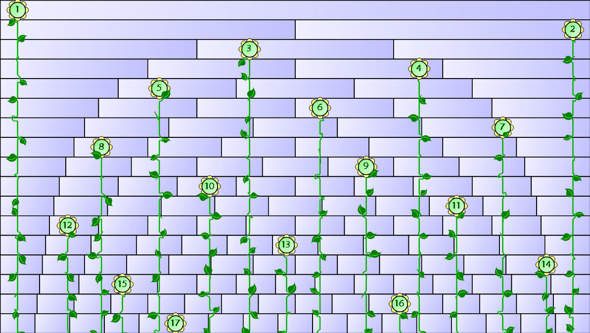 Diagram showing one possible solution to the irregularity of distributions problem at N = 17. There exists no solution for N ≥ 18.